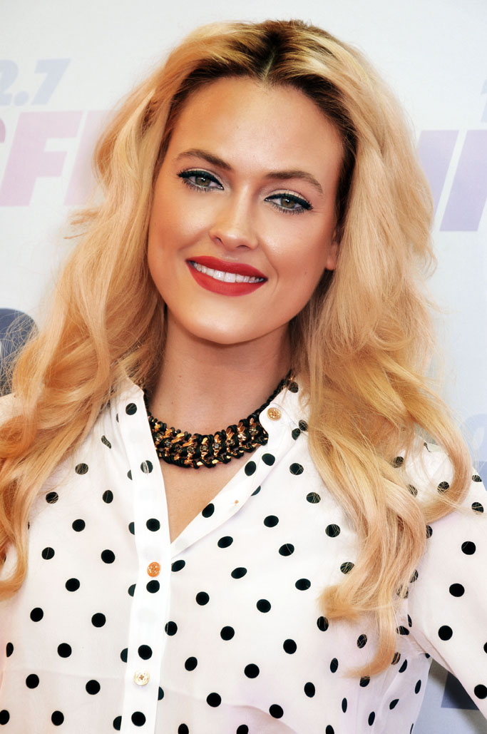 Peta Murgatroyd, Carson, California on May 11, 2013 - Photo by Glenn Francis of